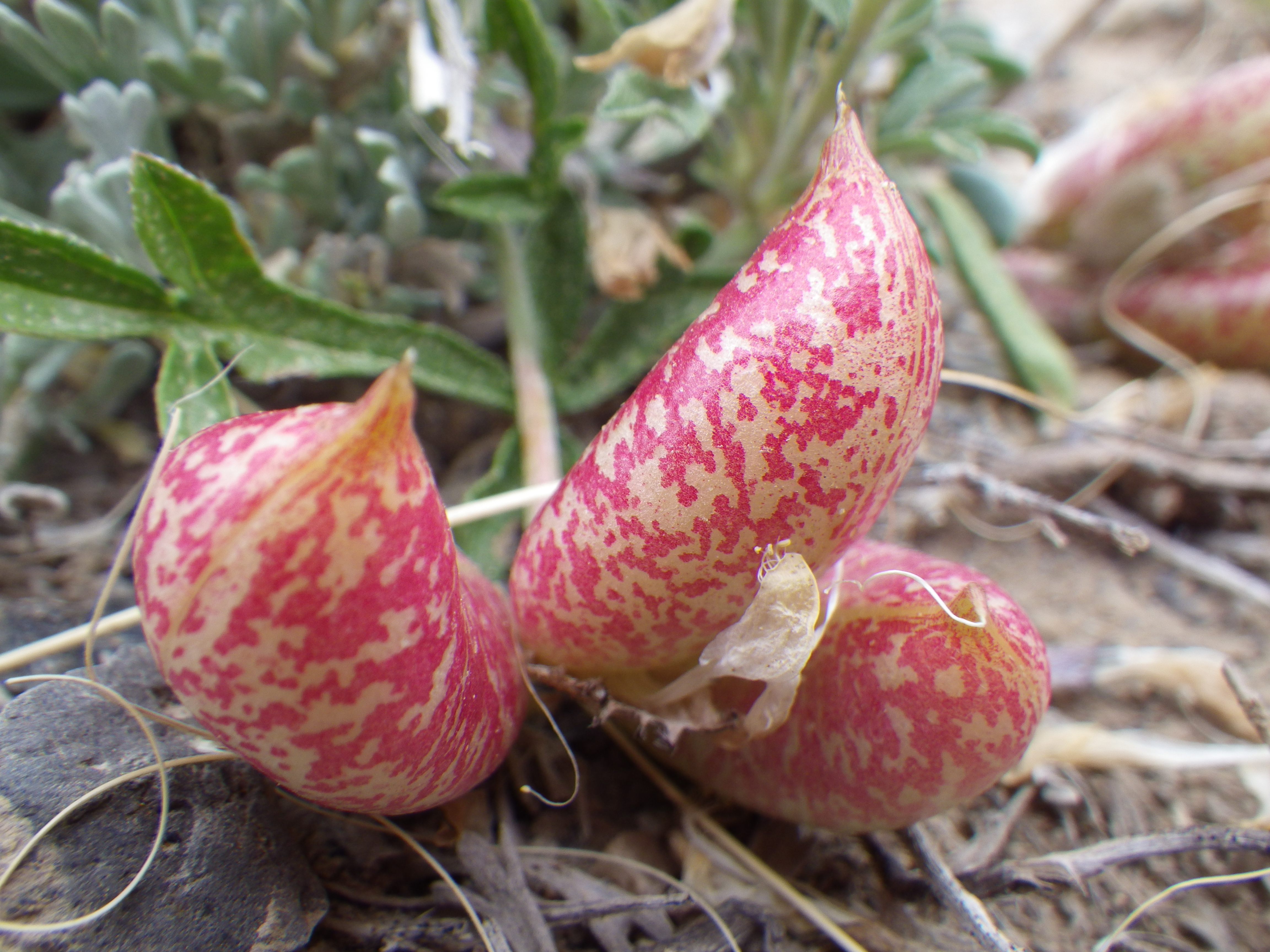 One of the sporadically common legumes inhabiting the Wyoming big sagebrush steppe along the south end of the Pryor Mountains. This species is distinguished from Astragalus missouriensis in part by the red-mottled pods.